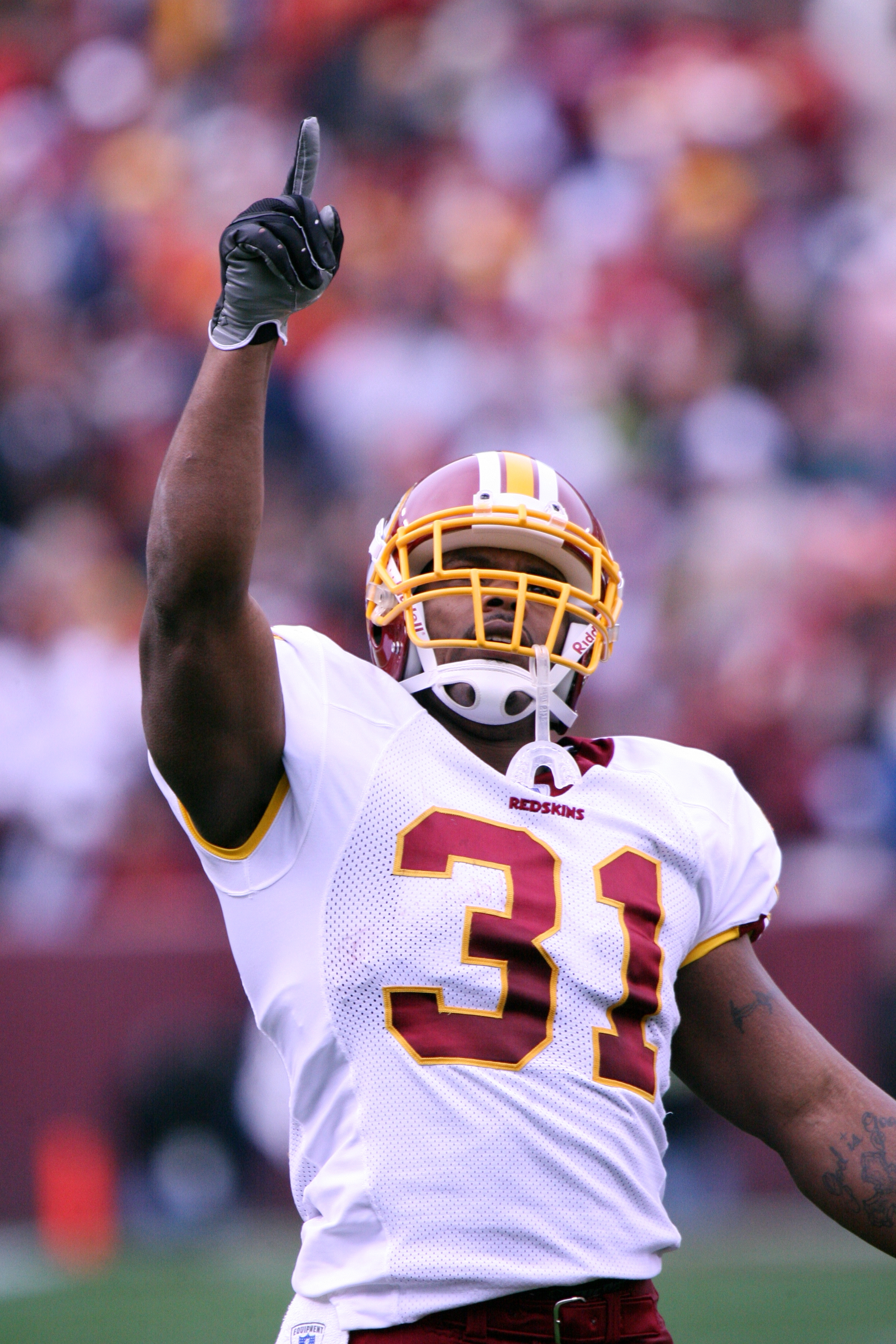 An image of Rock Cartwright of the Washington Redskins in 2006.